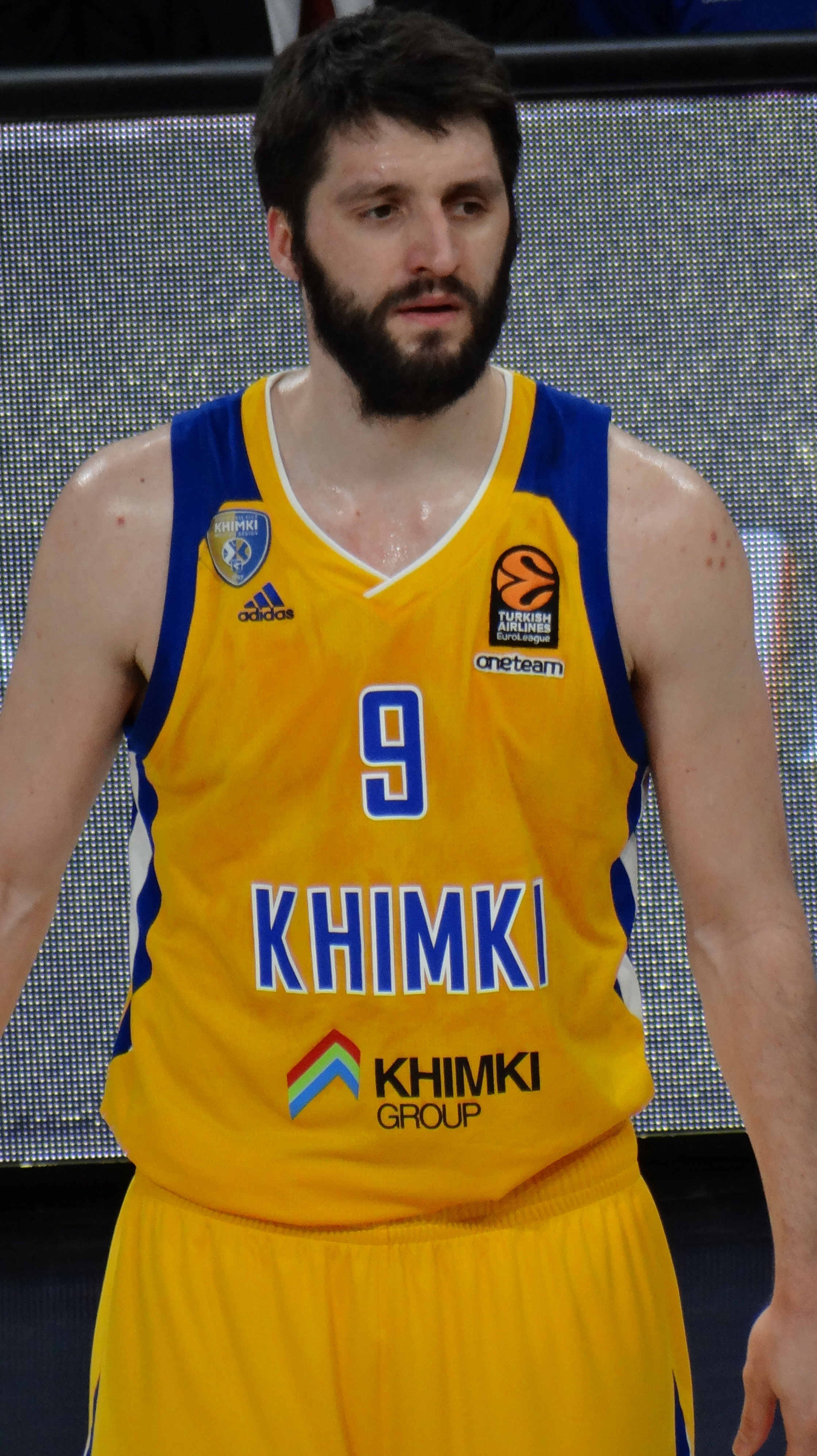 Stefan Marković 9 BC Khimki EuroLeague 20180321